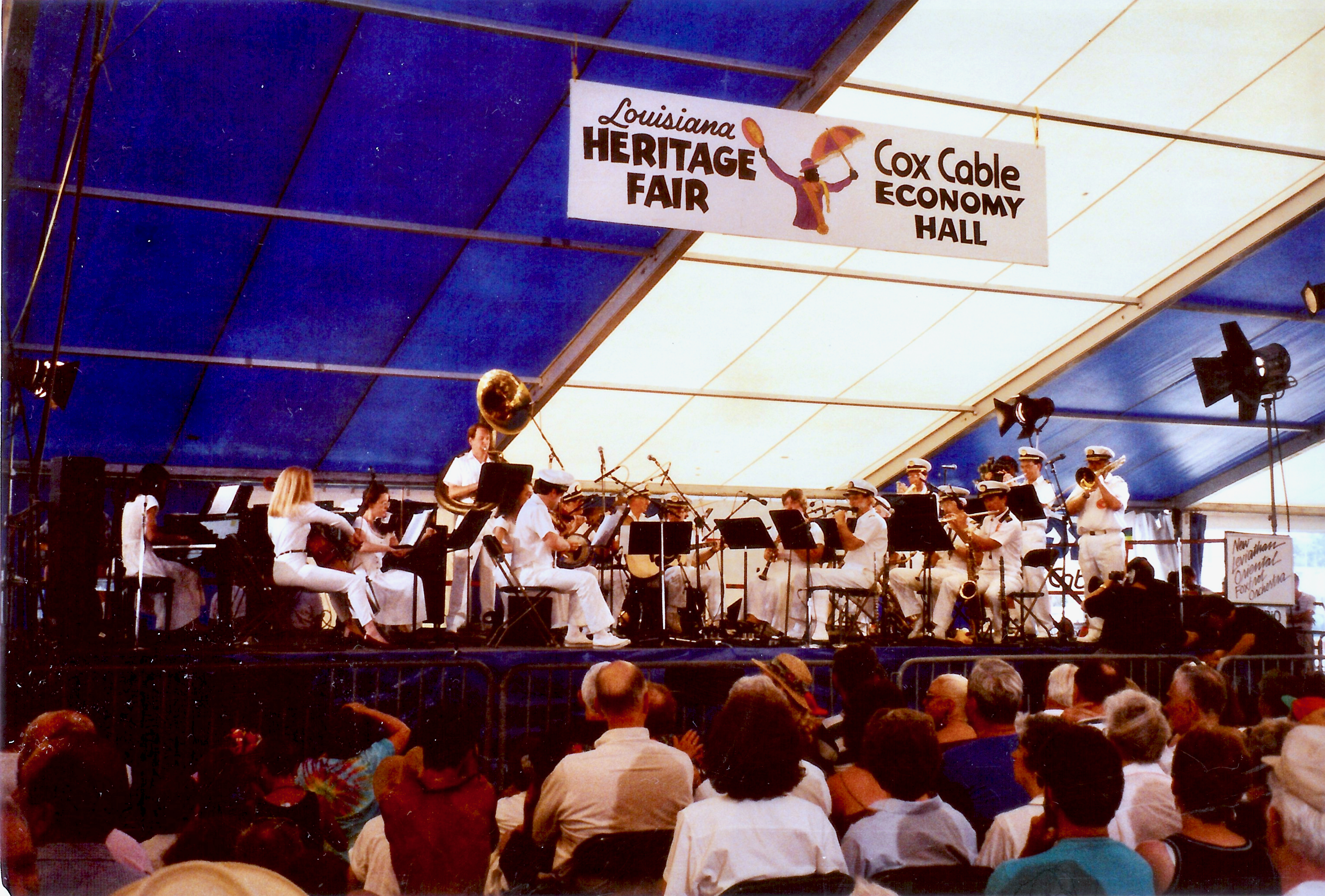 The New Leviathan Oriental Foxtrot Orchestra at the New Orleans Jazz & Heritage Festival. Photo by Infrogmation